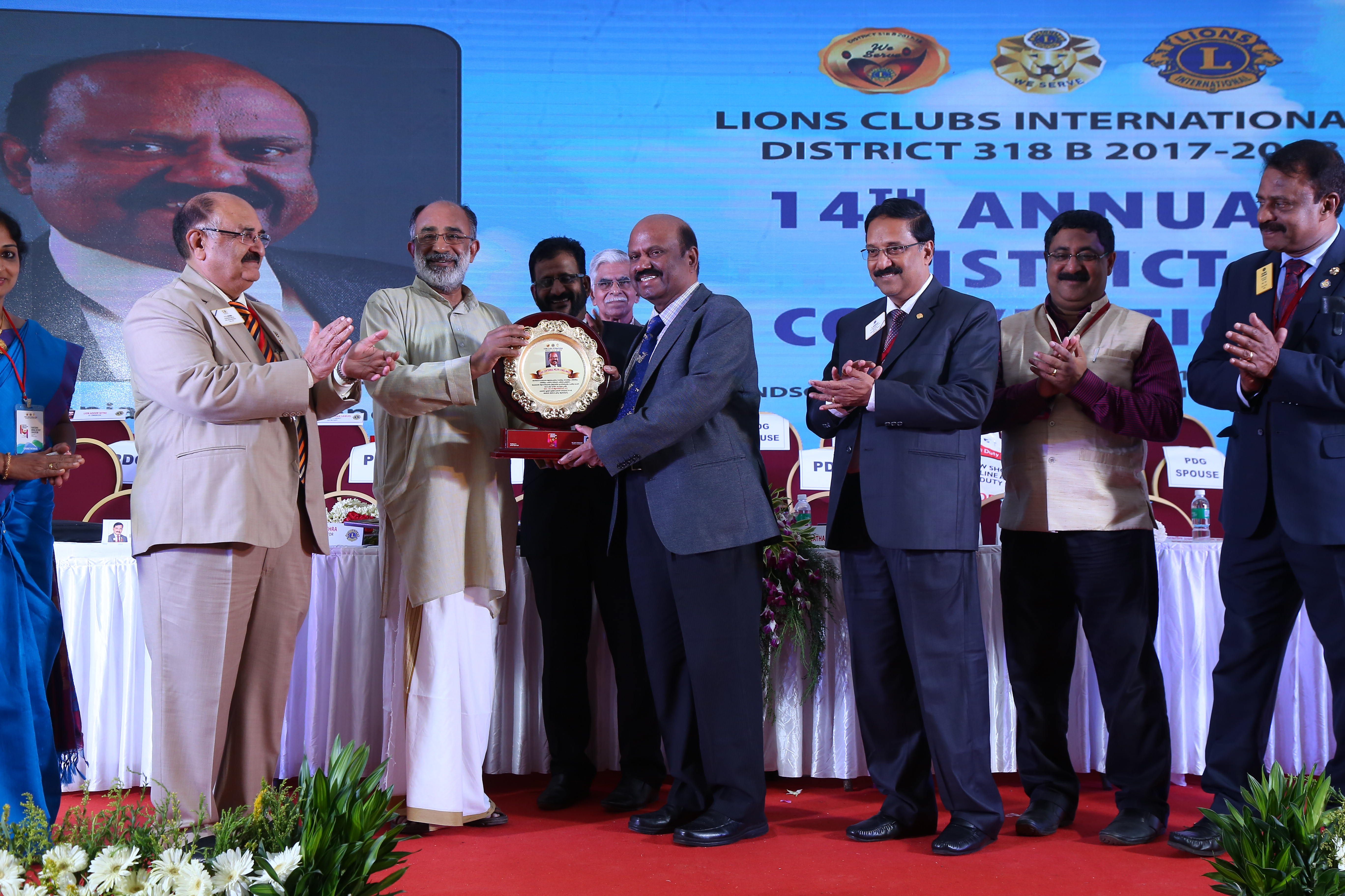 Tourism Minister of India Shri. K.J. Alphons Kannanthanam presenting the Melvin John award to Dr. C. V. Ananda Bose